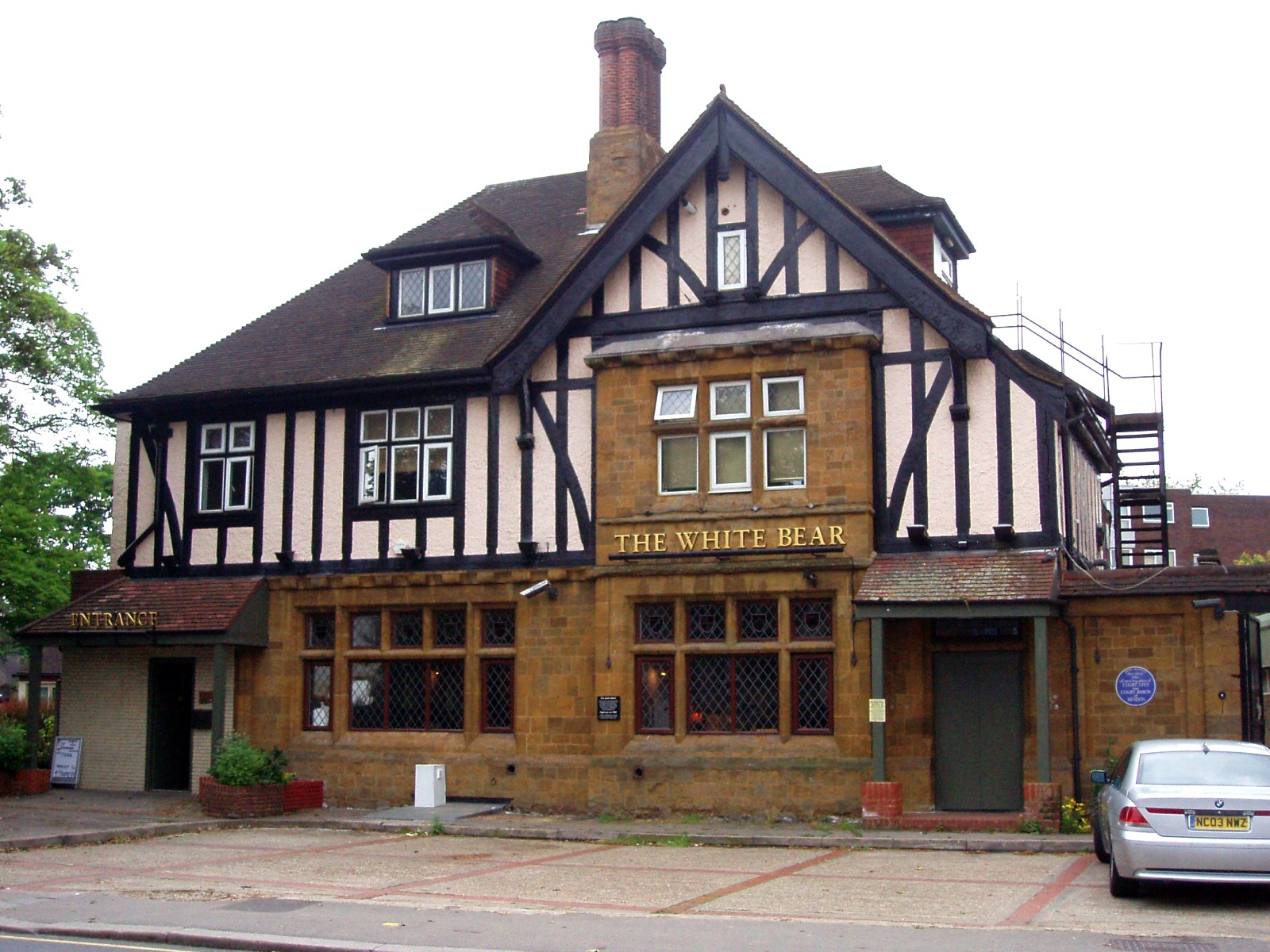 Old pub in Hendon, since reopened as Fernando's Chicken Grill and Bar (itself now closed). (It was in the 2000 Good Beer Guide as the Footman and Firkin.) Address: 56 The Burroughs. Former Name(s): The Footman and Firkin. Owner: Mitchells and Butlers (former); Firkin Pub Co (former). Links: Beer in the Evening Dead Pubs (history)